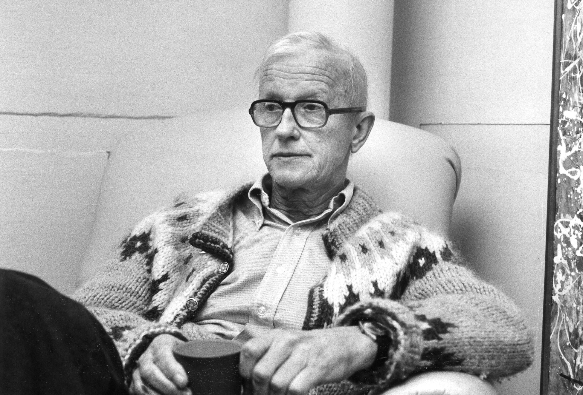 I would like to thank Dr. Ernst Peter Fischer, a former friend of Max Delbrück, for sending me the original photo by mail. He agreed to release it under the GNU license. The picture was taken during the last years of Delbrück; the exact year is not known.